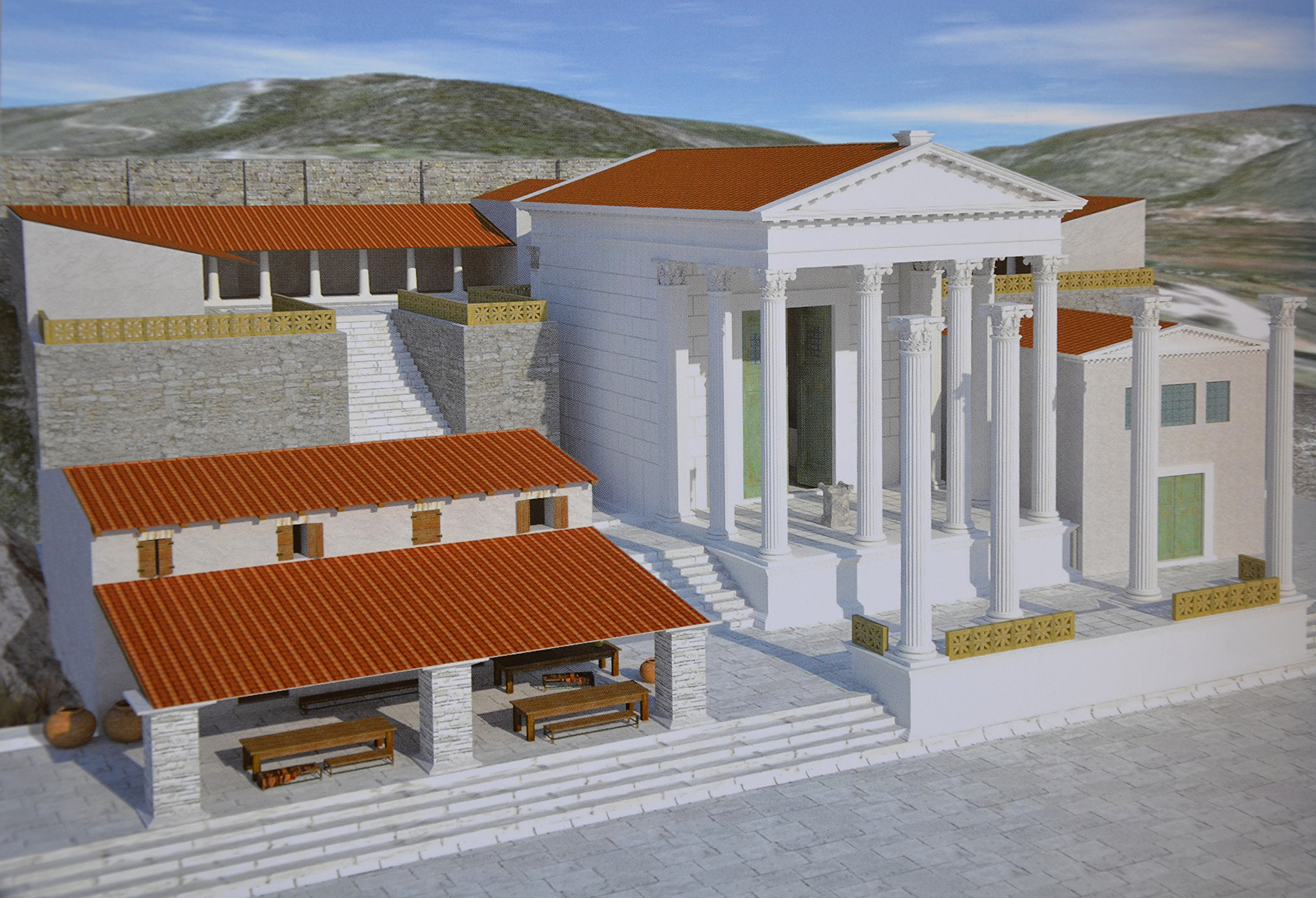 Plausible reconstruction drawing of the Augusteum, Archaeological museum Narona, Vid, Croatia